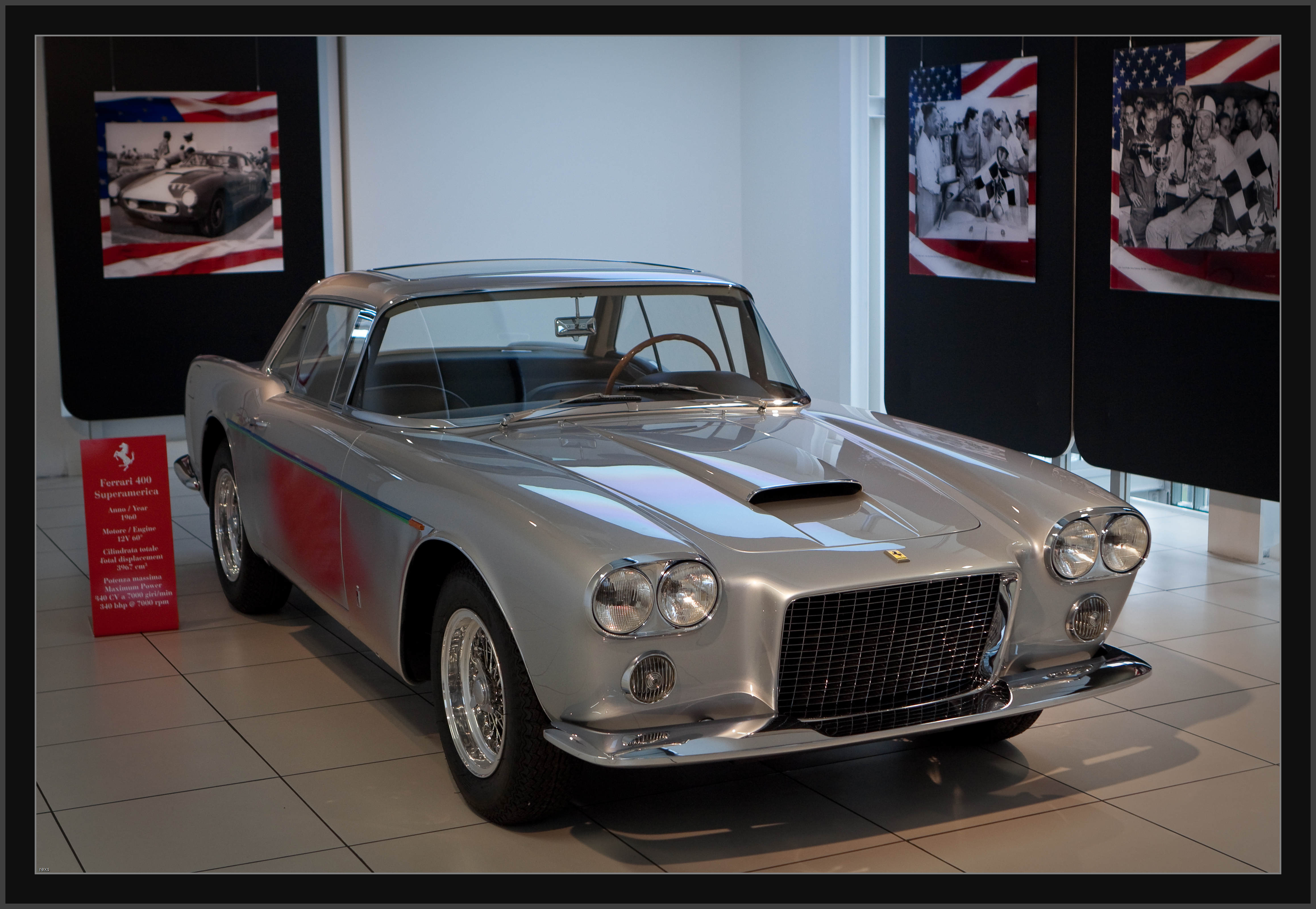 Ferrari 400 Superamerica Pininfarina Coupé, 1961, unique model constructed by Pininfarina for Gianni Agnelli.